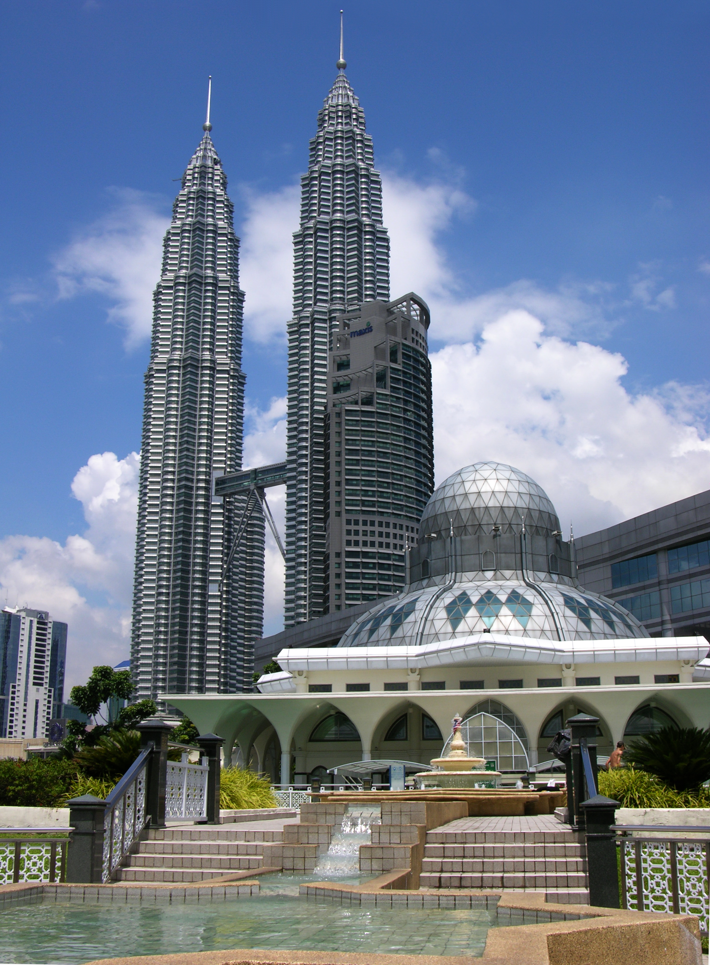 As Syakirin Mosque in Kuala Lumpur, Malaysia